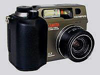 My camera Olympus Camedia C-3000